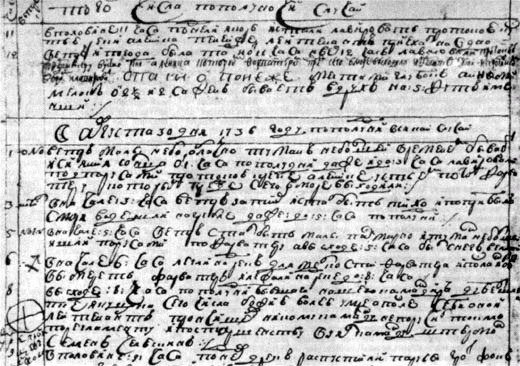 This is one page from "Yakutsk" sloop journal. This page dated 9 september 1736 year. In this page written about death of Vasili Pronchishchev (russian explorer and captain of "Yakutsk".